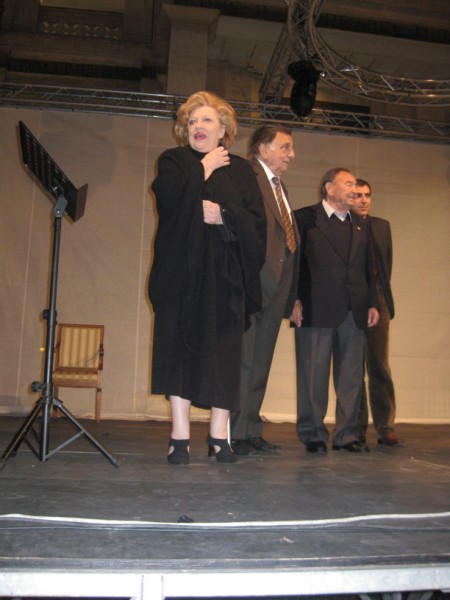 Carla Boni, Franco De Gemini, Giorgio Consolini and Carlo Posio on the stage during the event Homage to Pino Rucher, a life for the guitar held in Manfredonia